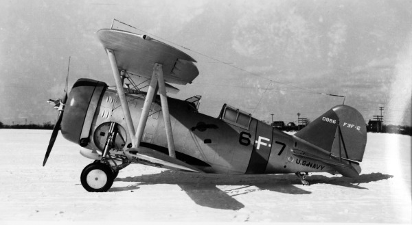 PictionID:40961882 - Catalog:Array - Title:Array - Filename:16_000125 Grumman F3F-2 0986 VF-6 6-F-7 factory via PMB.tif - - - Ray Wagner was Archivist at the San Diego Air and Space Museum for several years and is an author of several books on aviation --- ---Please Tag these images so that the information can be permanently stored with the digital file.---Repository: San Diego Air and Space Museum